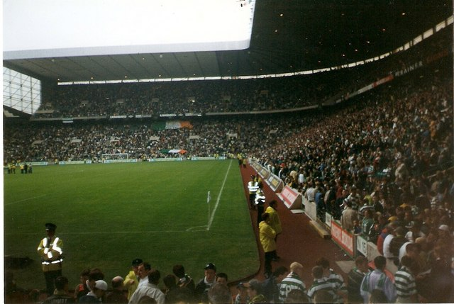 Celtic Park, Parkhead, Glasgow Home of Celtic Football Club. This picture was taken on the day in 1998 when Celtic won the Scottish Premier League with a 2-0 win over St Johnstone - a win which prevented rivals Rangers from securing a record tenth title in a row.